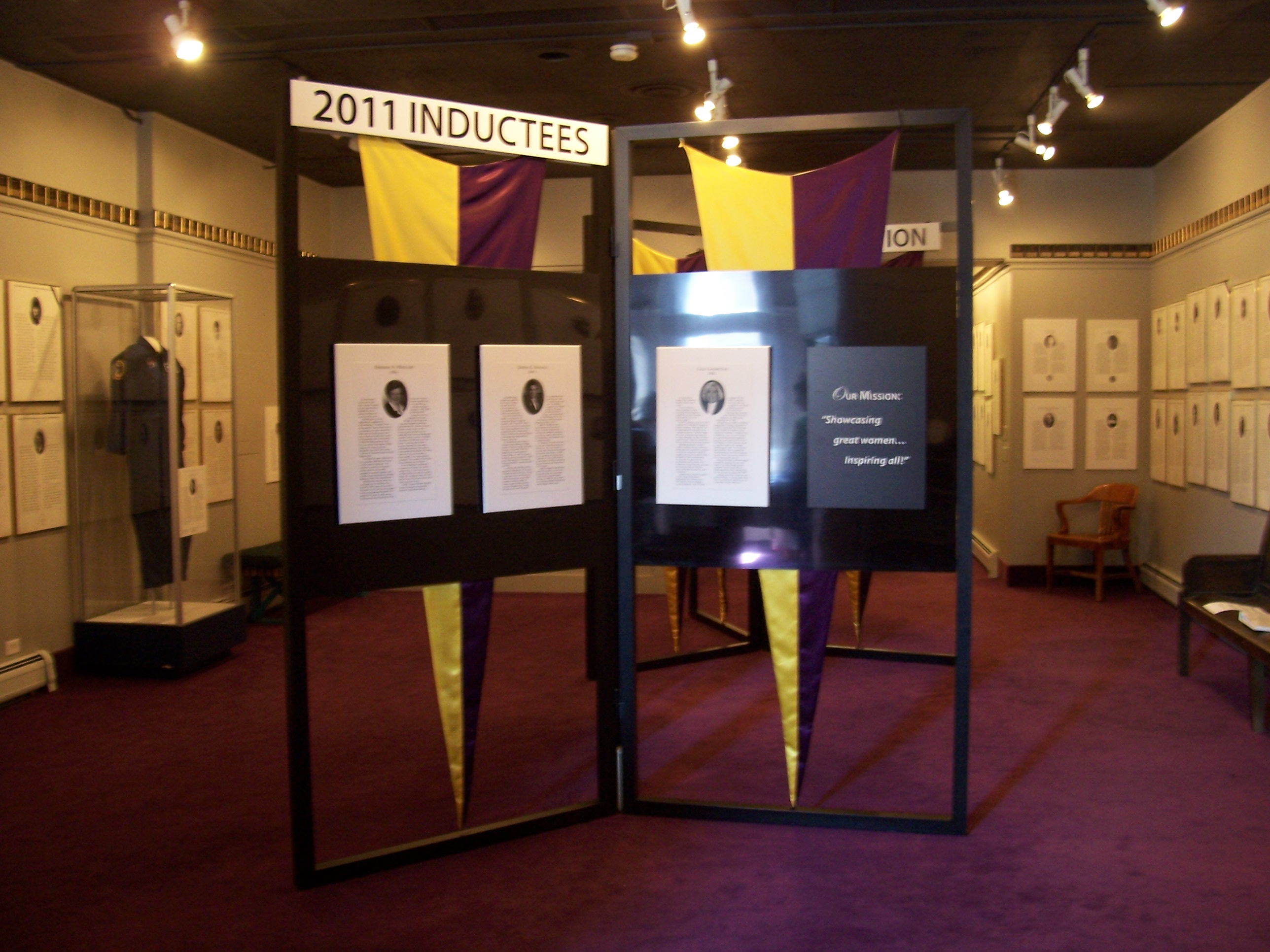 Interior of the National Women's Hall of Fame in Seneca Falls (hamlet), New York